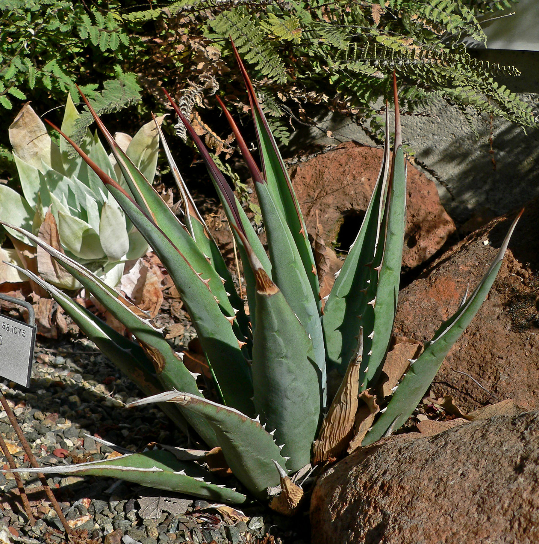 Agave utahensis ssp. kaibabensis at the University of California Botanical Garden, Berkeley, California